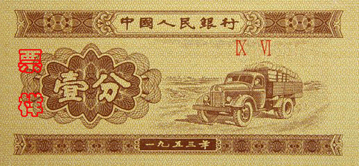 Front of second series 1 fen renminbi